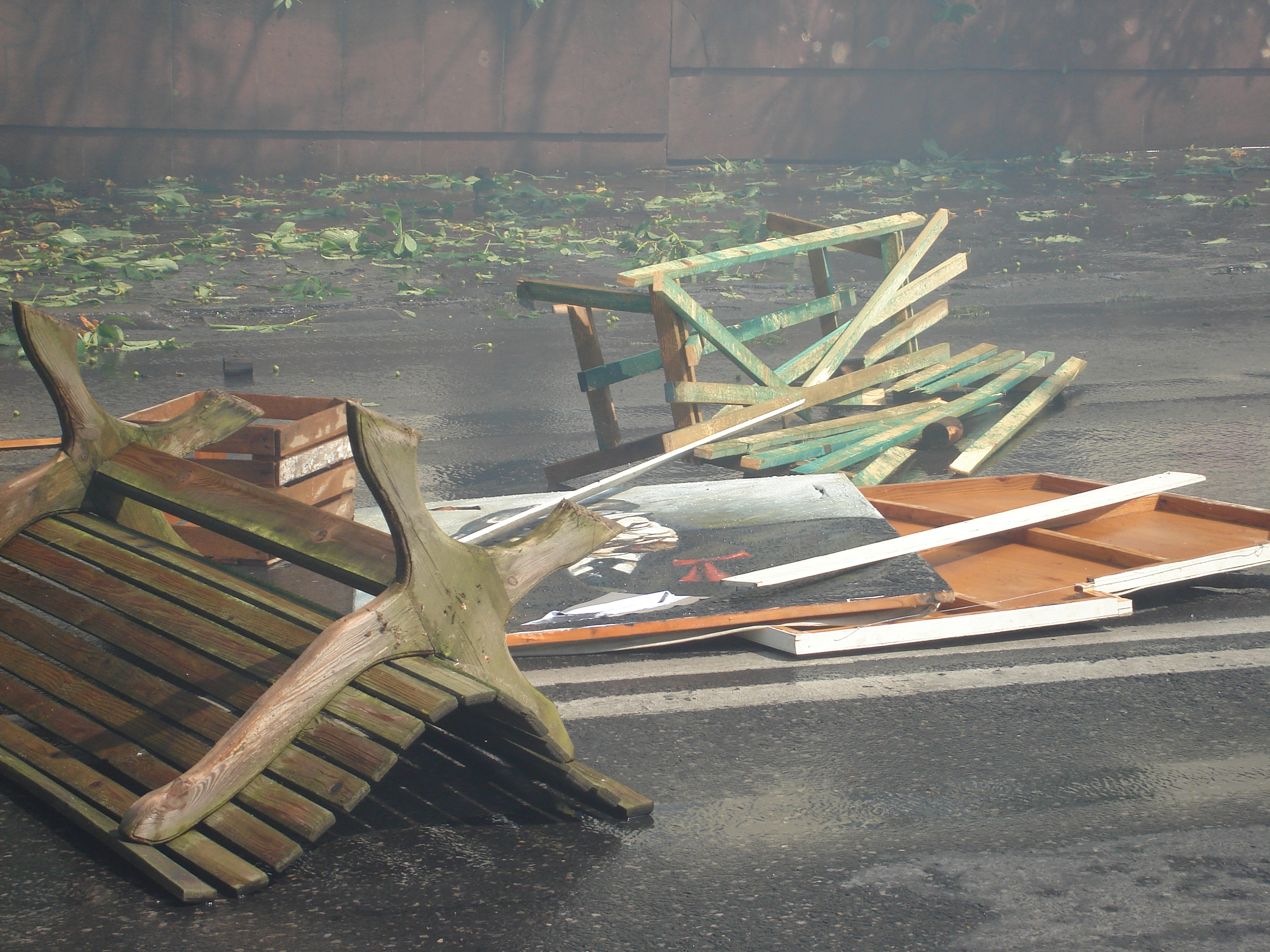 Staging of Radom events 1976